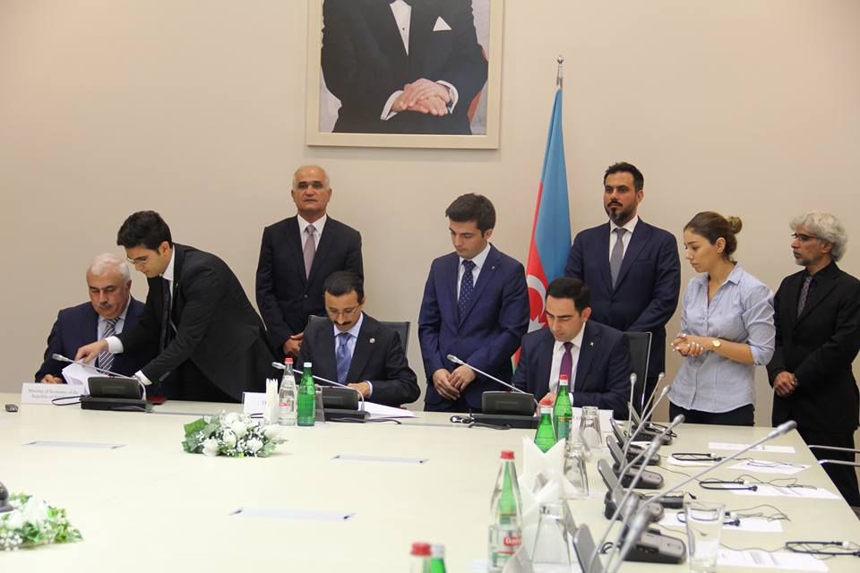 Advisory agreement of UAE's DP World